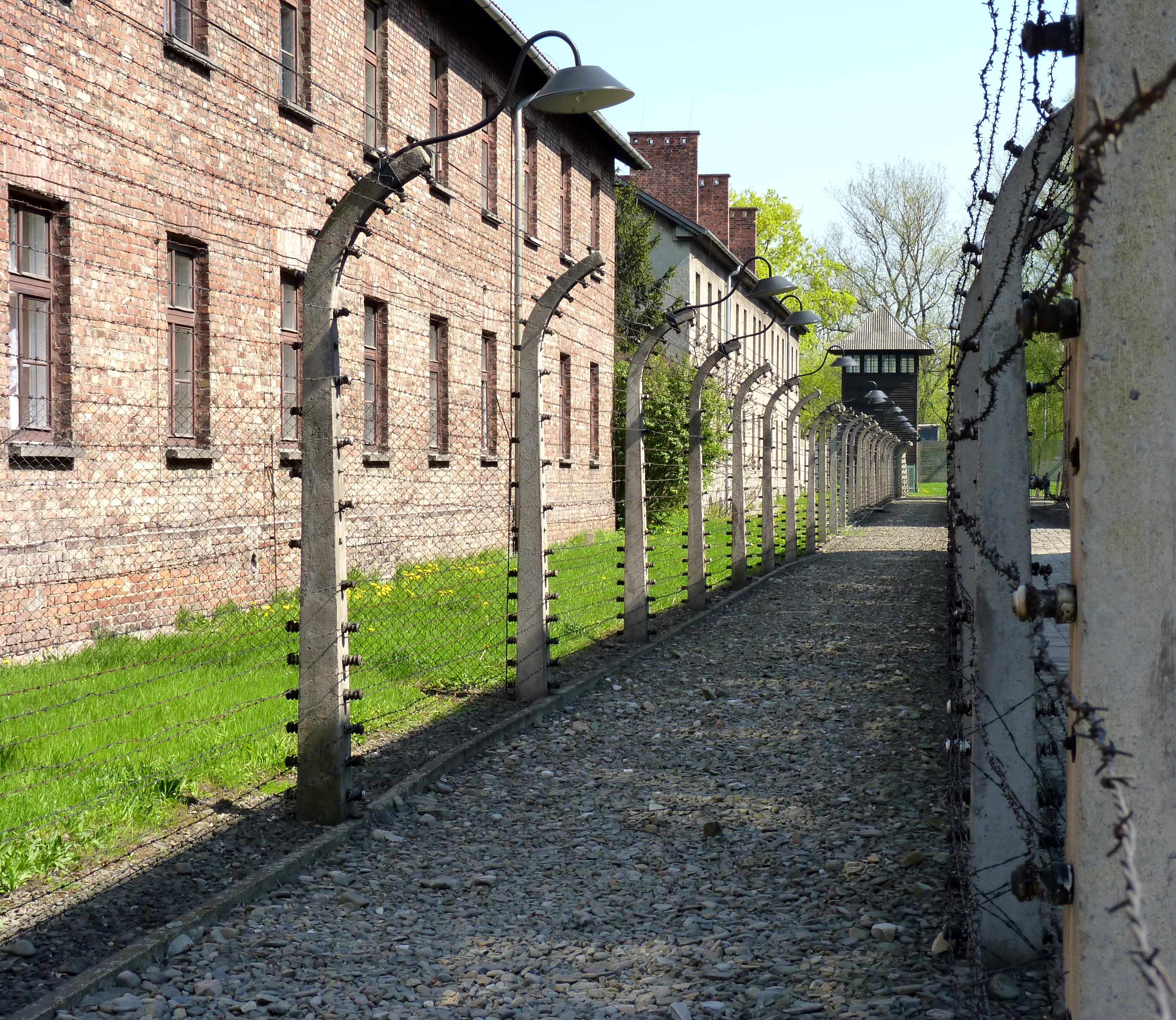 Barracks and fence in Auschwitz concentration camp.